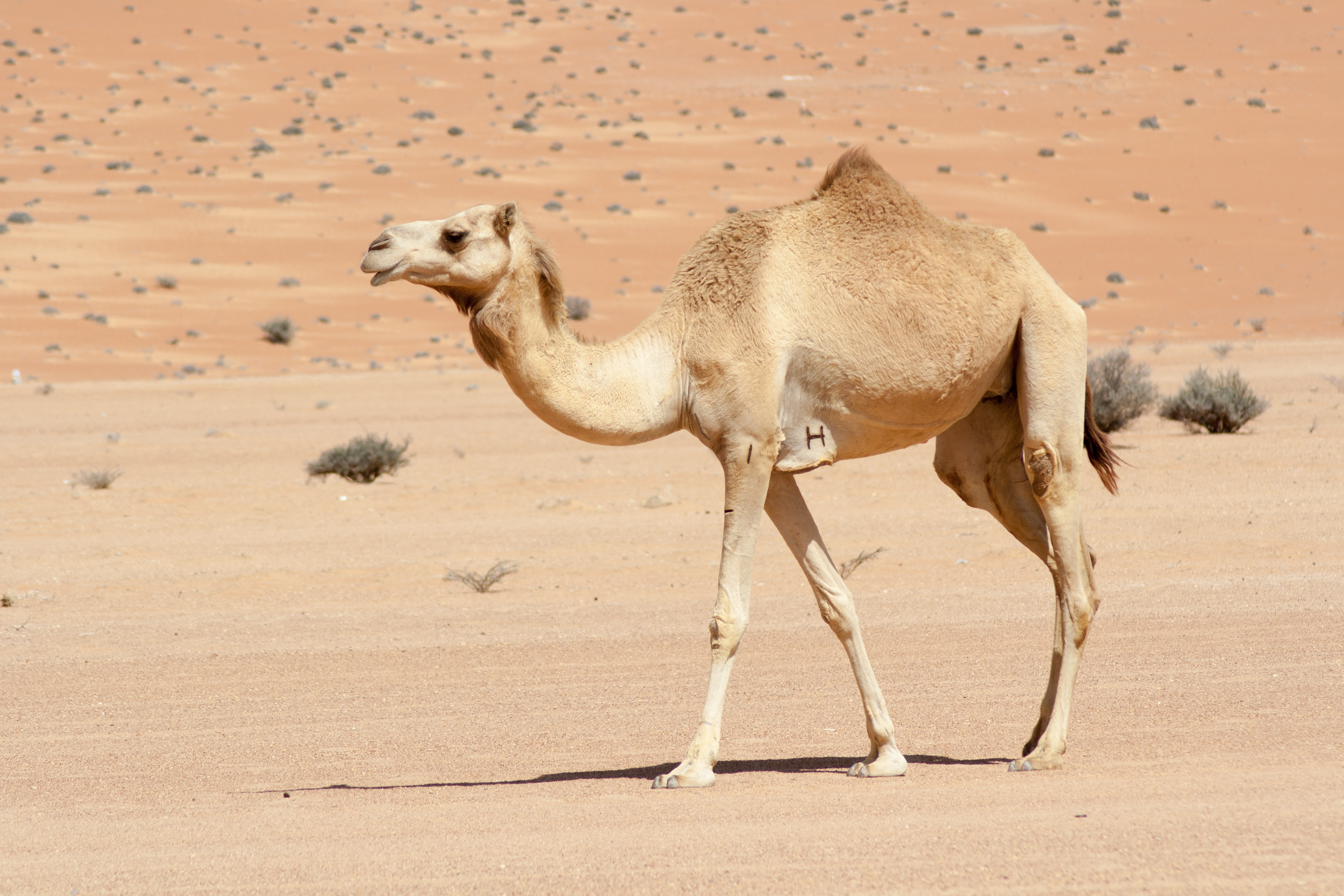 Dromedary in the Wahibah Sands, Oman